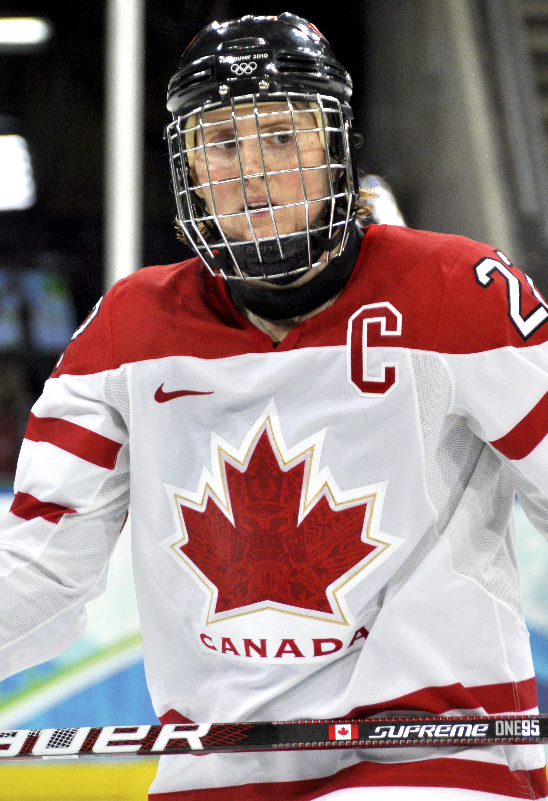 Hayley Wickenheiser This photo from [ blog! You can also follow her on Twitter at [